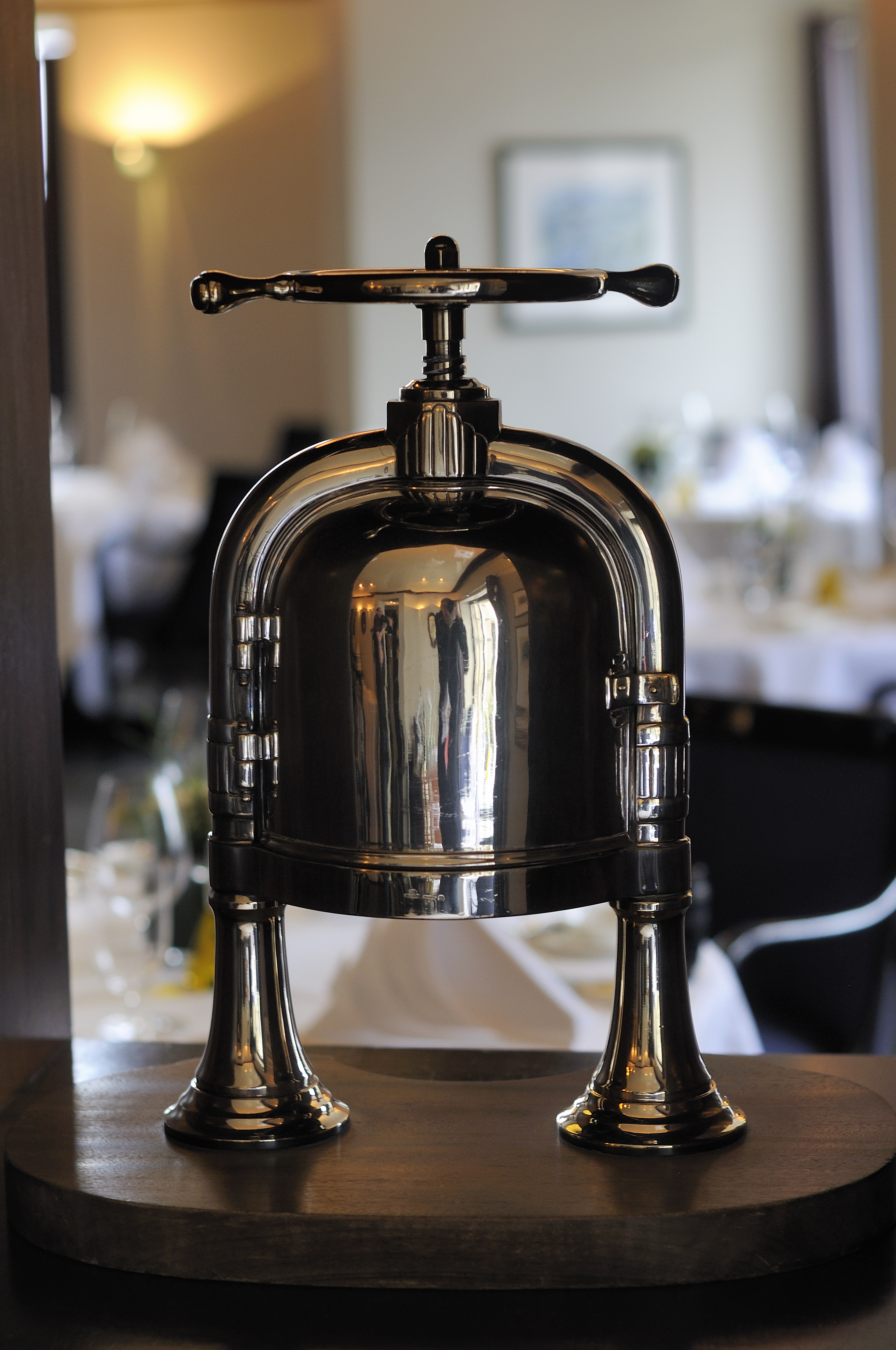 Hotel Nassauer Hof, Wiesbaden (Germany).